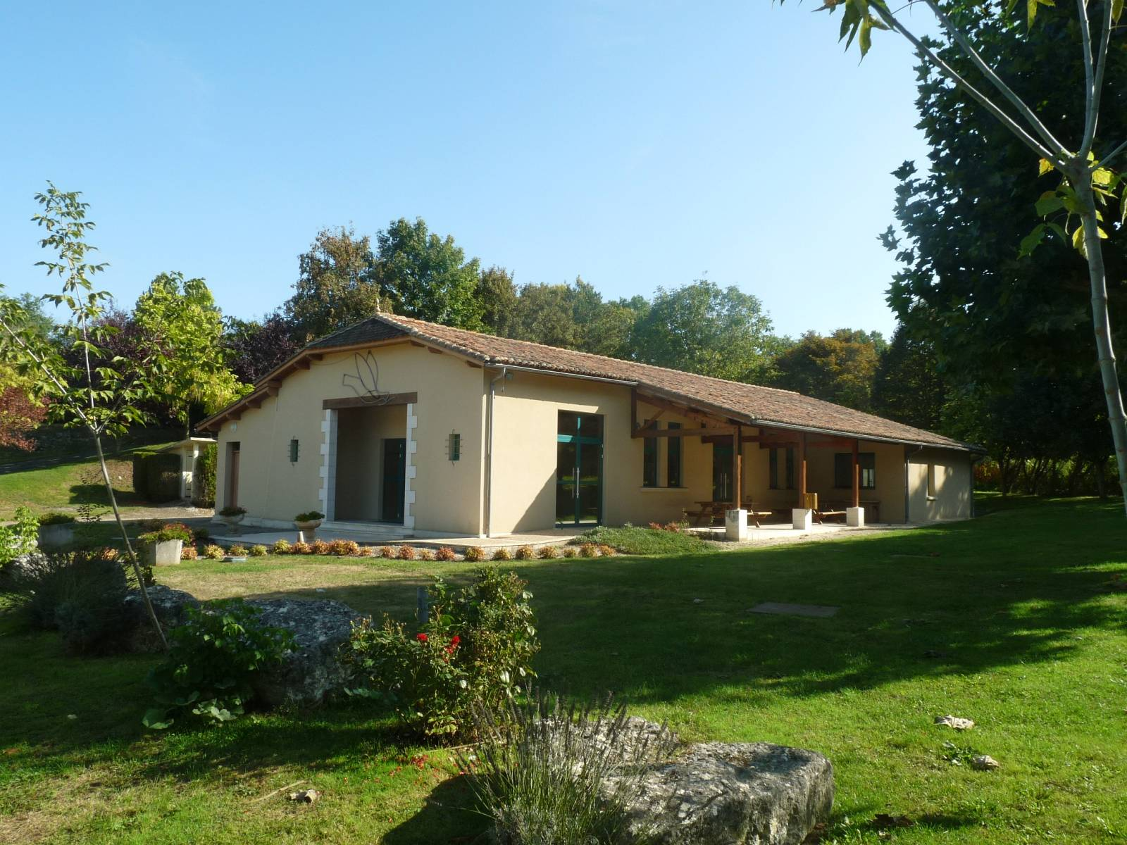 community hall